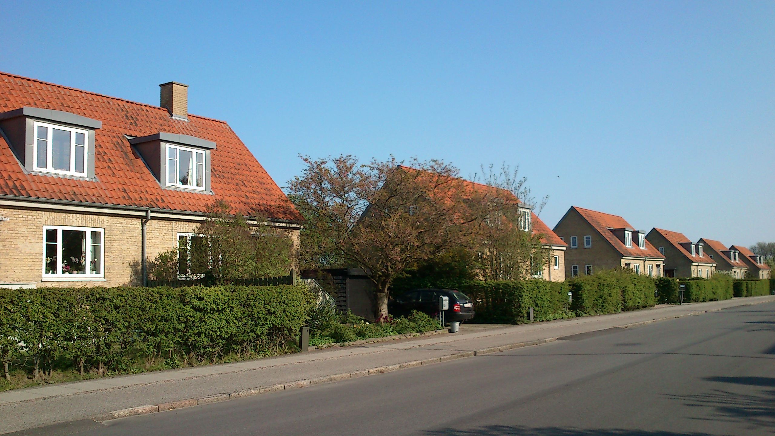 Riisvangen